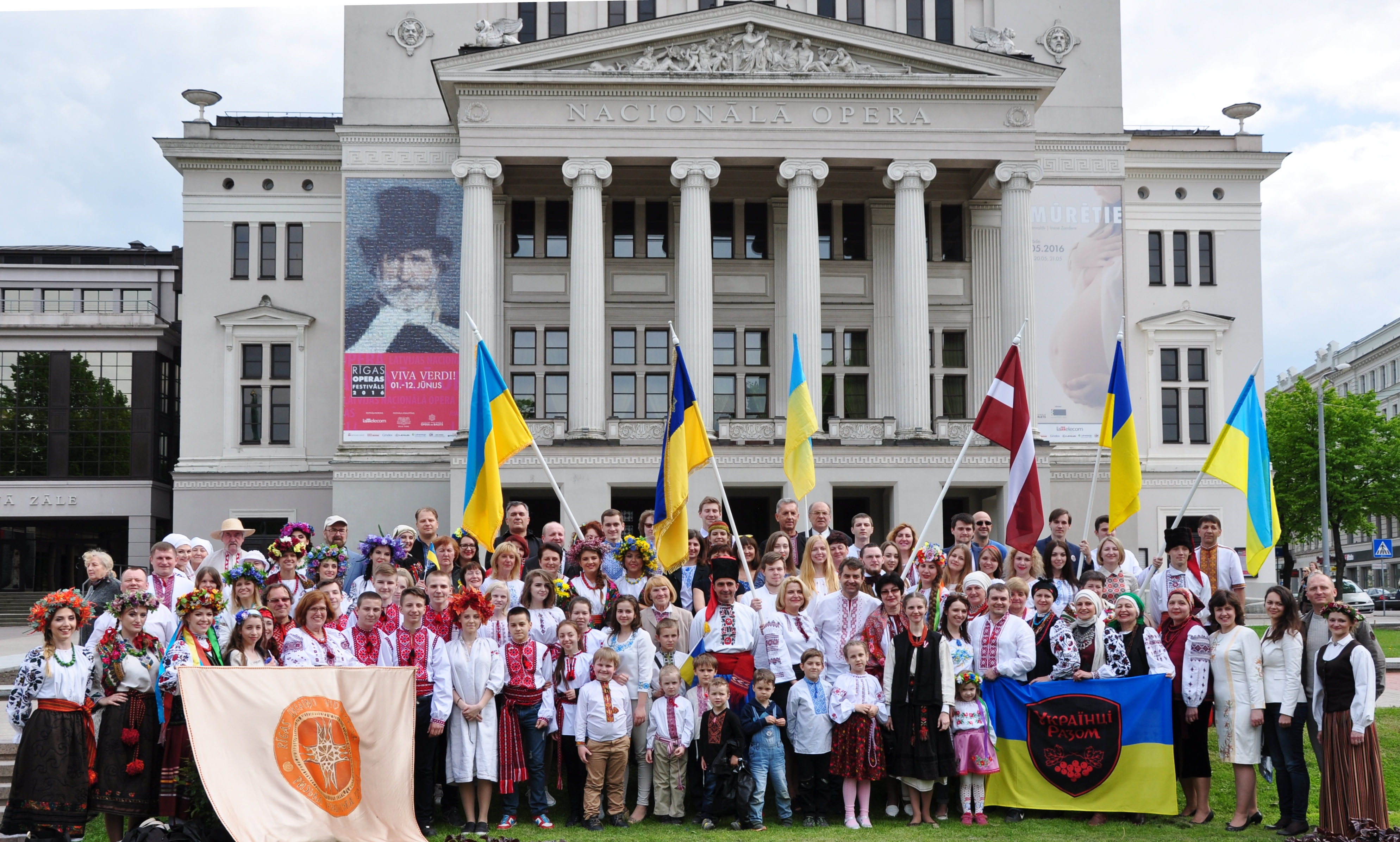 Ukrainians of Latvia on the Vyshyvanka Day in front of the National Opera Building in Riga